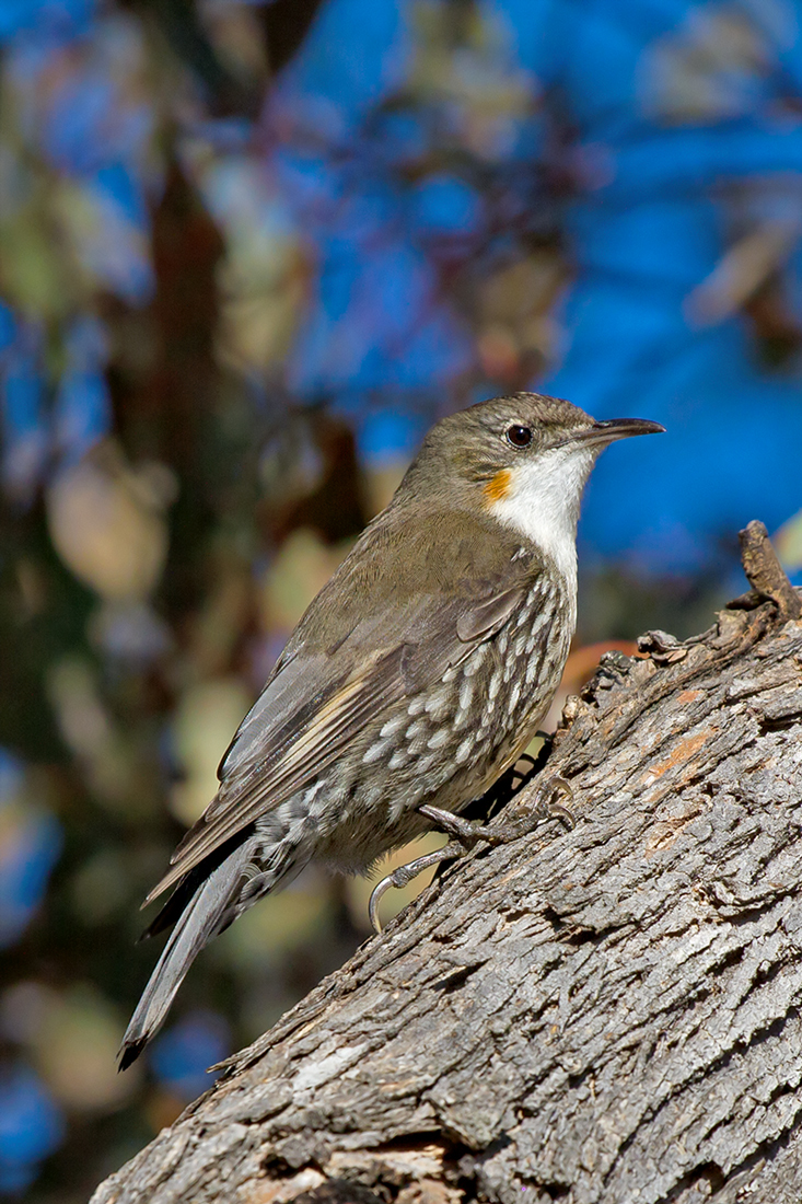 A White-throated Treecreeper in Victoria, Australia.